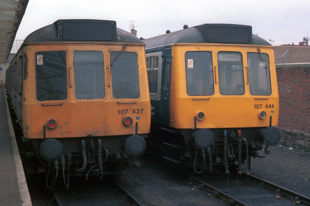 British Rail Class 107 (107 427 & 107 444) at Largs railway station in Largs, North Ayrshire, Scotland. Photo by Pencefn, taken April 1984.